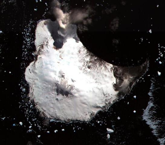 ASTER satellite image of Saunders Island, South Sandwich Islands.